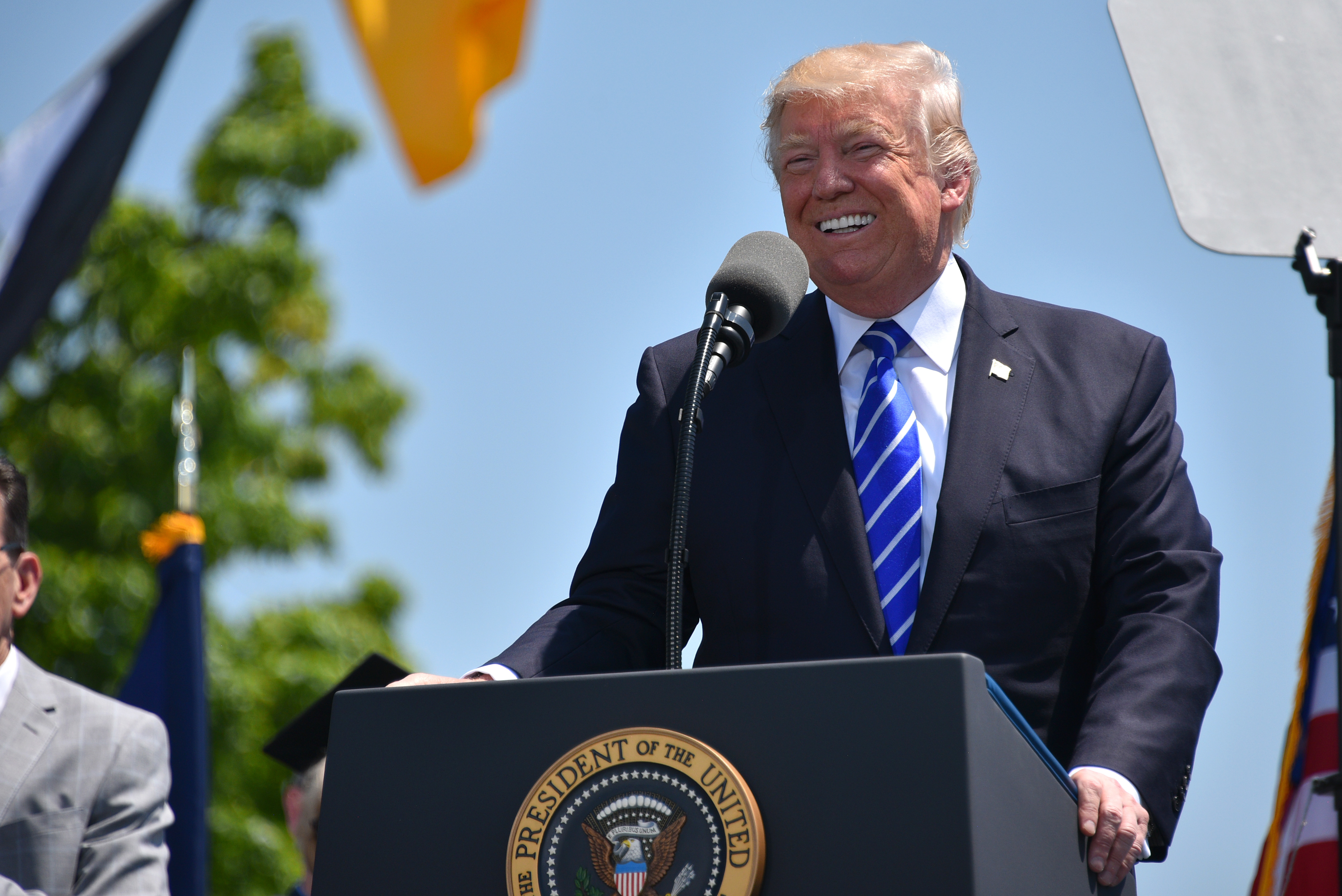 President Donald Trump speaks during the 136th Coast Guard Academy commencement exercise in New London, Conn., May 17, 2017. The ceremony was the President's first service academy graduation as commander-in-chief. Coast Guard photo by Petty Officer 2nd Class Patrick Kelley.